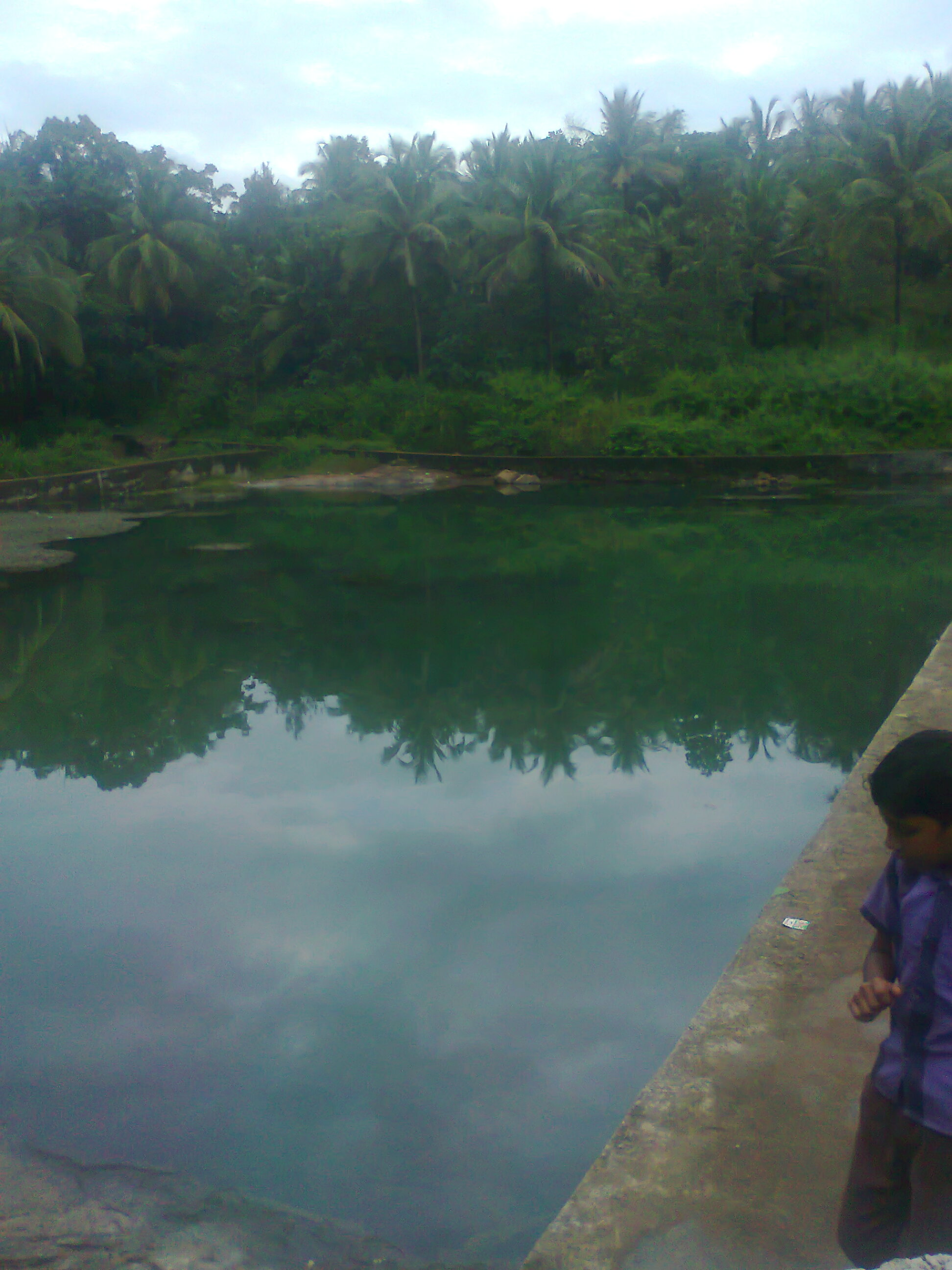 This is a photograph of Pullancheri Irrigation project